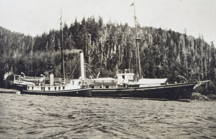 United States Coast and Geodetic Survey survey ship USC&GS Thomas R. Gedney (rear) with the steam launch USC&GS Cosmos alongside in the Territory of Alaska